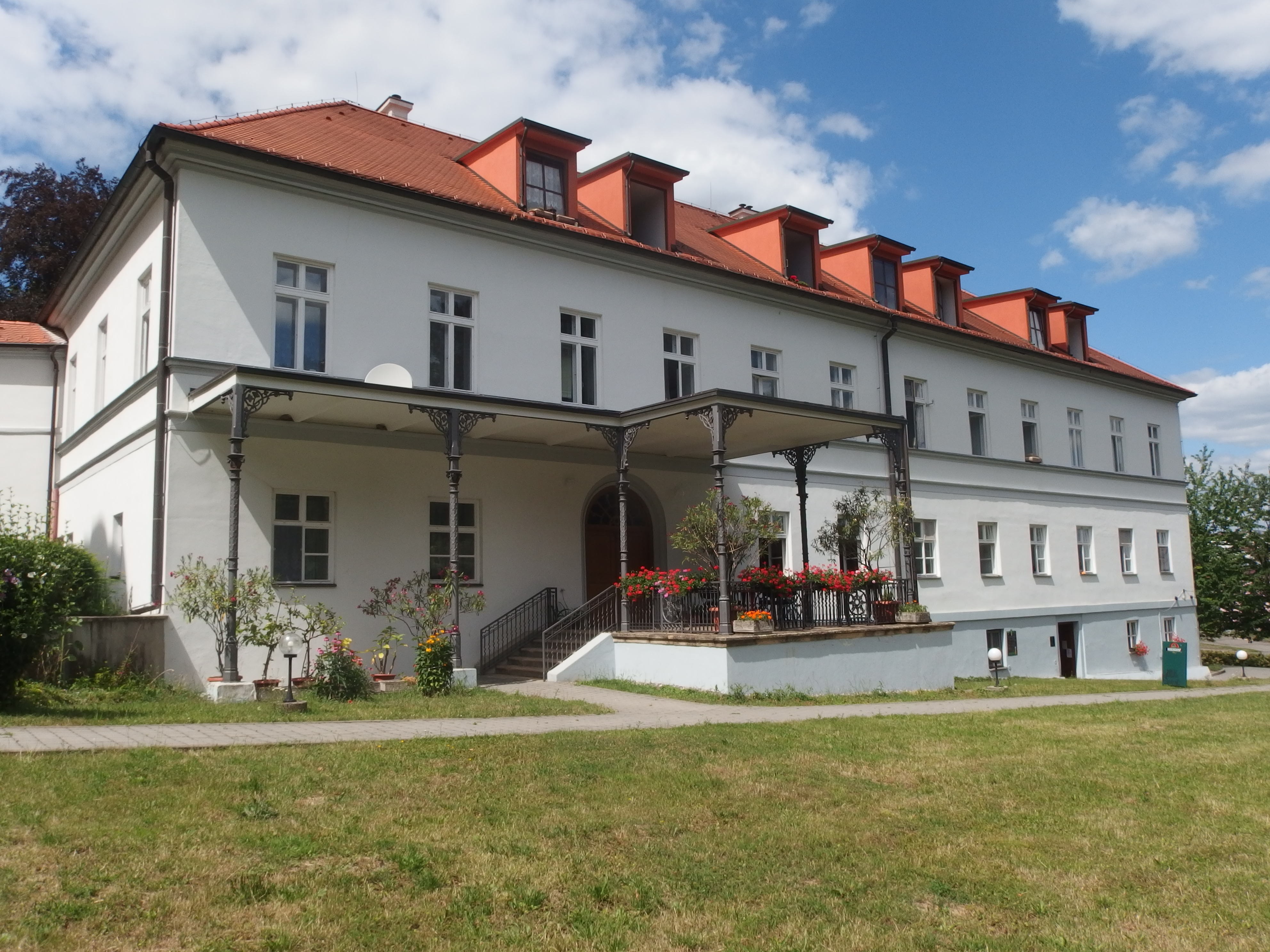 Pohořelice, Zlín District, Czech Republic.